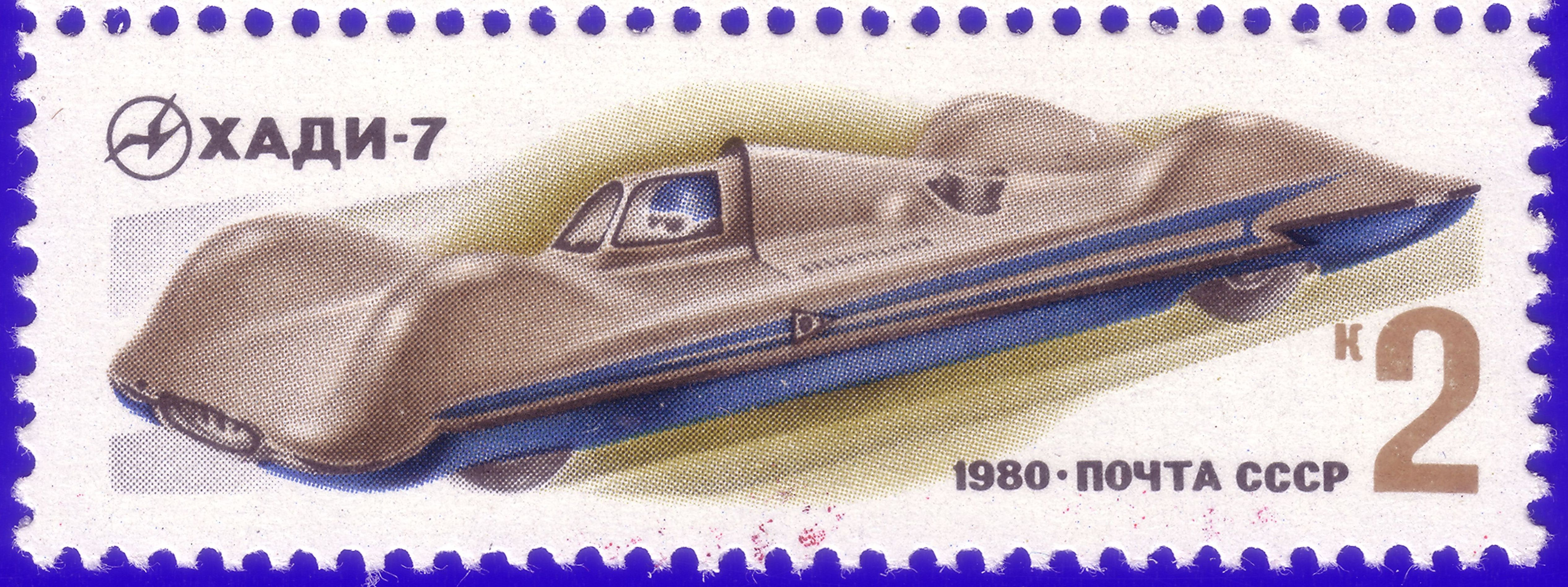 A USSR stamp of 1980. KHADI-7 racing car.